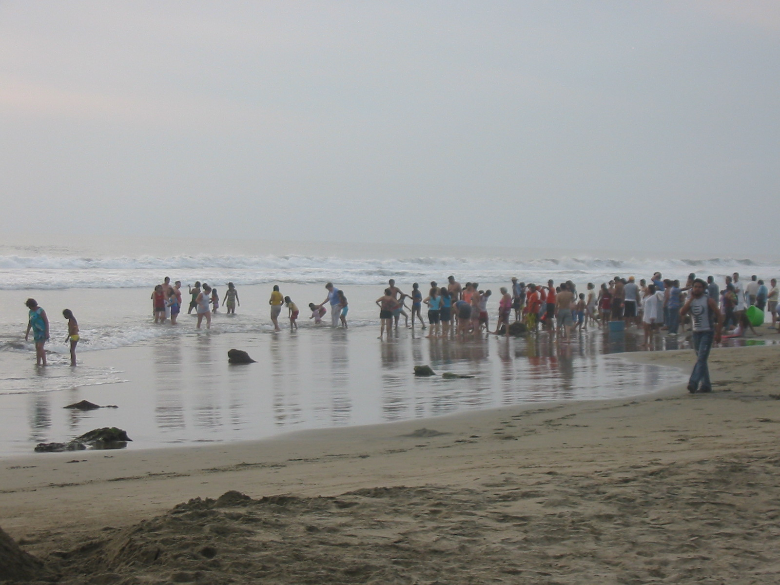 release of turtles at Troncones Beach Guerrero Mexico